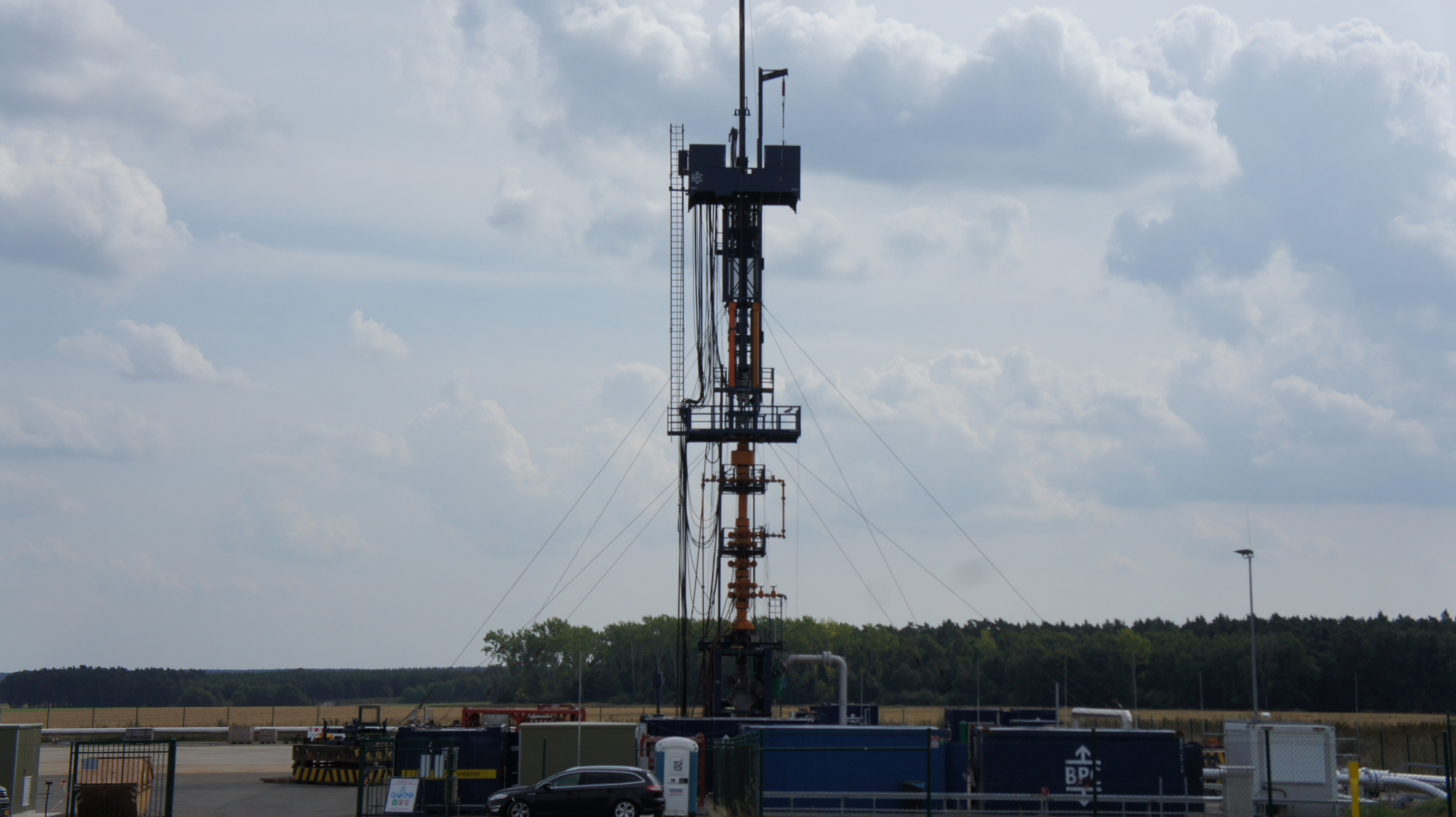 600K unit at work.